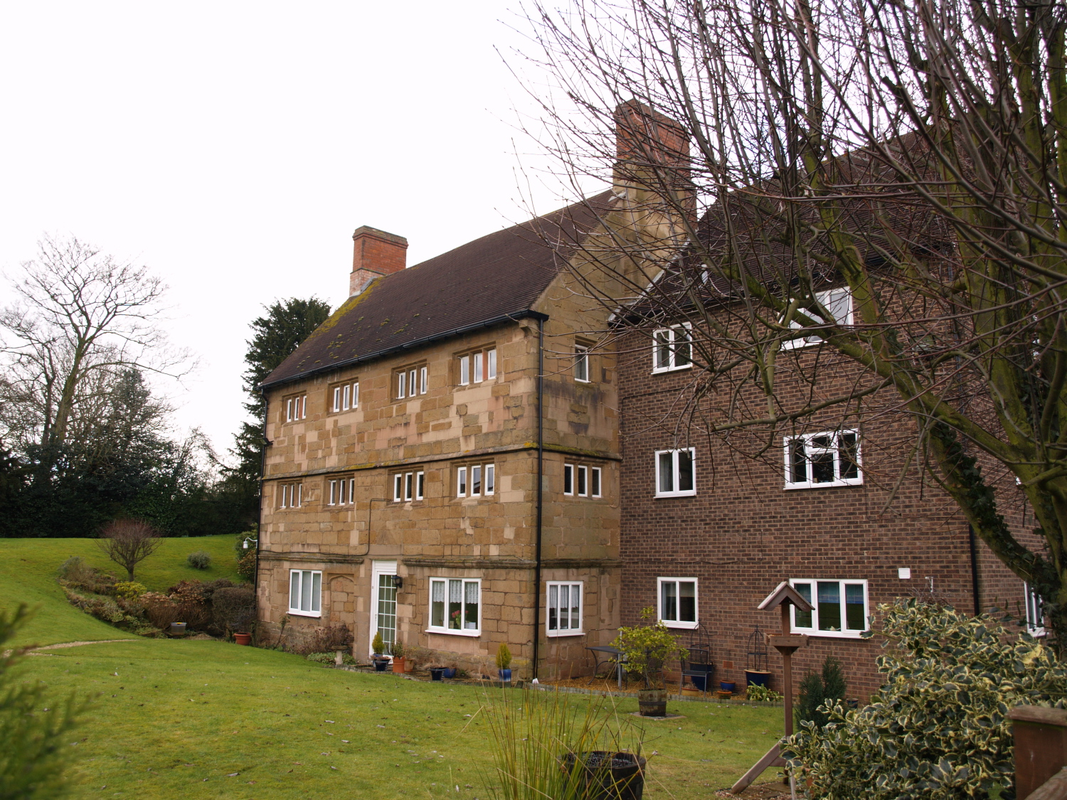 Stivichall Grange, off Lonscale Drive, Coventry